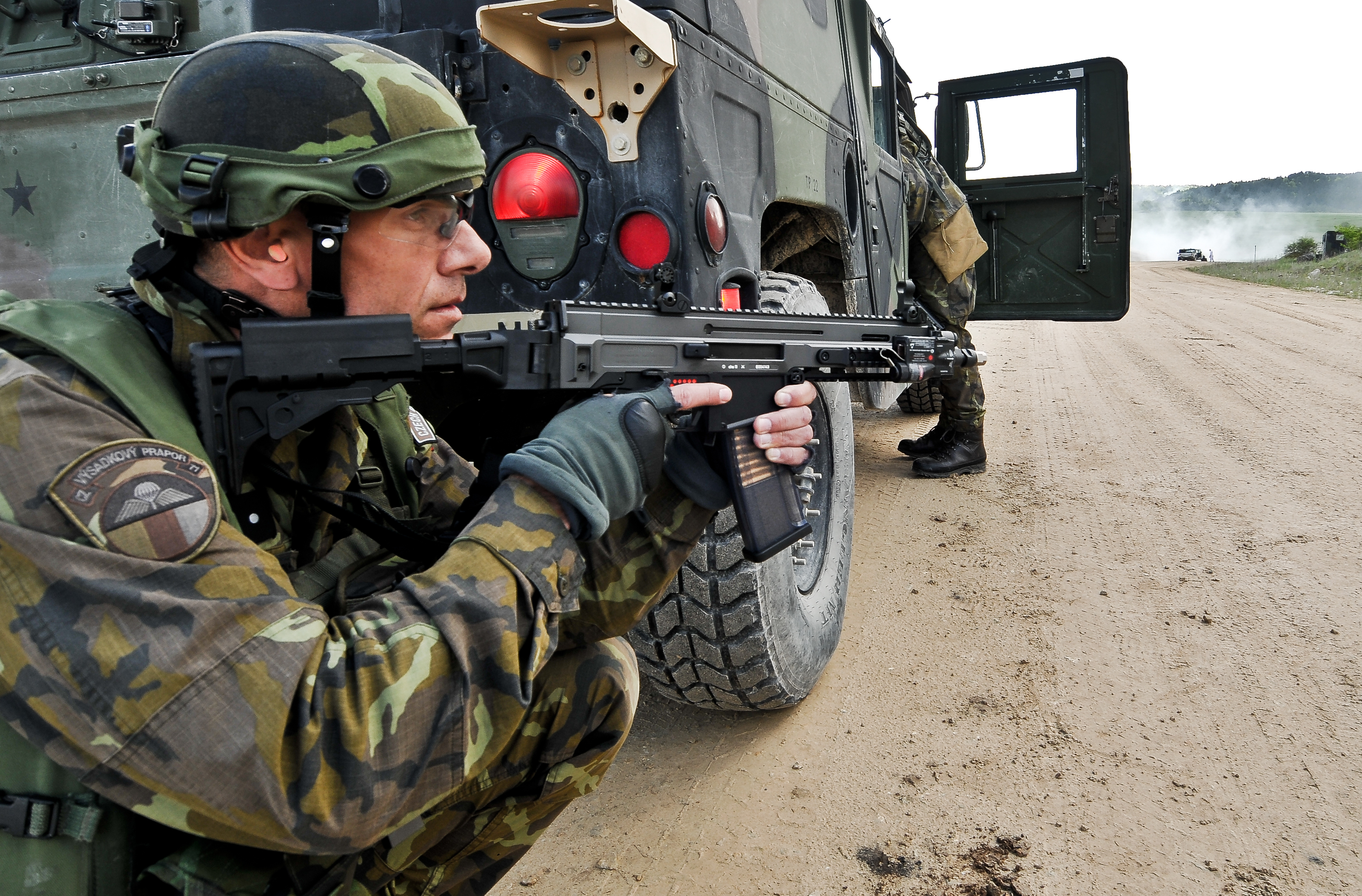 A Czech soldier provides security while his convoy is stopped during Operational Mentor Liaison Team training May 7, 2012, at the Joint Multinational Readiness Center in Hohenfels, Germany. OMLT training is designed to prepare NATO forces for full-spectrum operations in Afghanistan. Police OMLT training prepares civilian police officers to train members of the Afghan National Police. (U.S. Army photo by Spc. Tristan Bolden/Released)